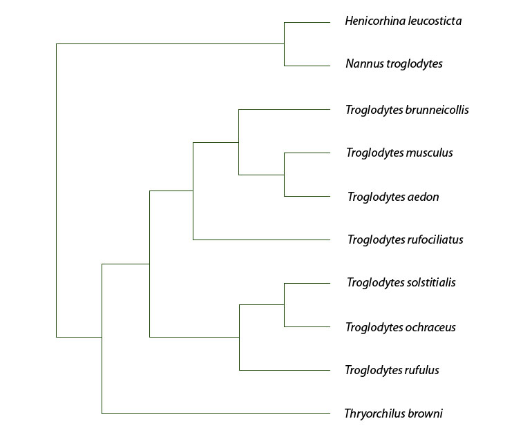 Troglodytes cladogram (Wren relationship), suggested by Nathan H. Rice